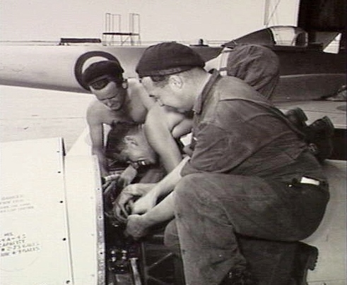 Iwakuni, Japan. RAAF fitters of No. 491 Maintenance Squadron work on the engine of one of No 77 Squadron's Meteor aircraft.